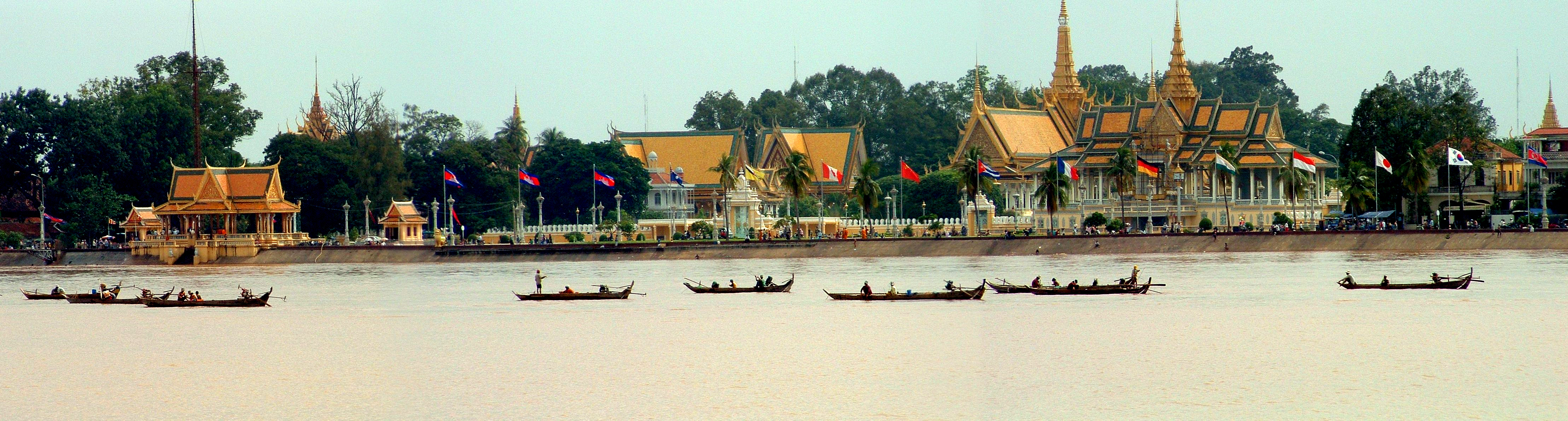 Cambodia, Phnom Penh, Royal Palace as seen from acros Tonle Sap River